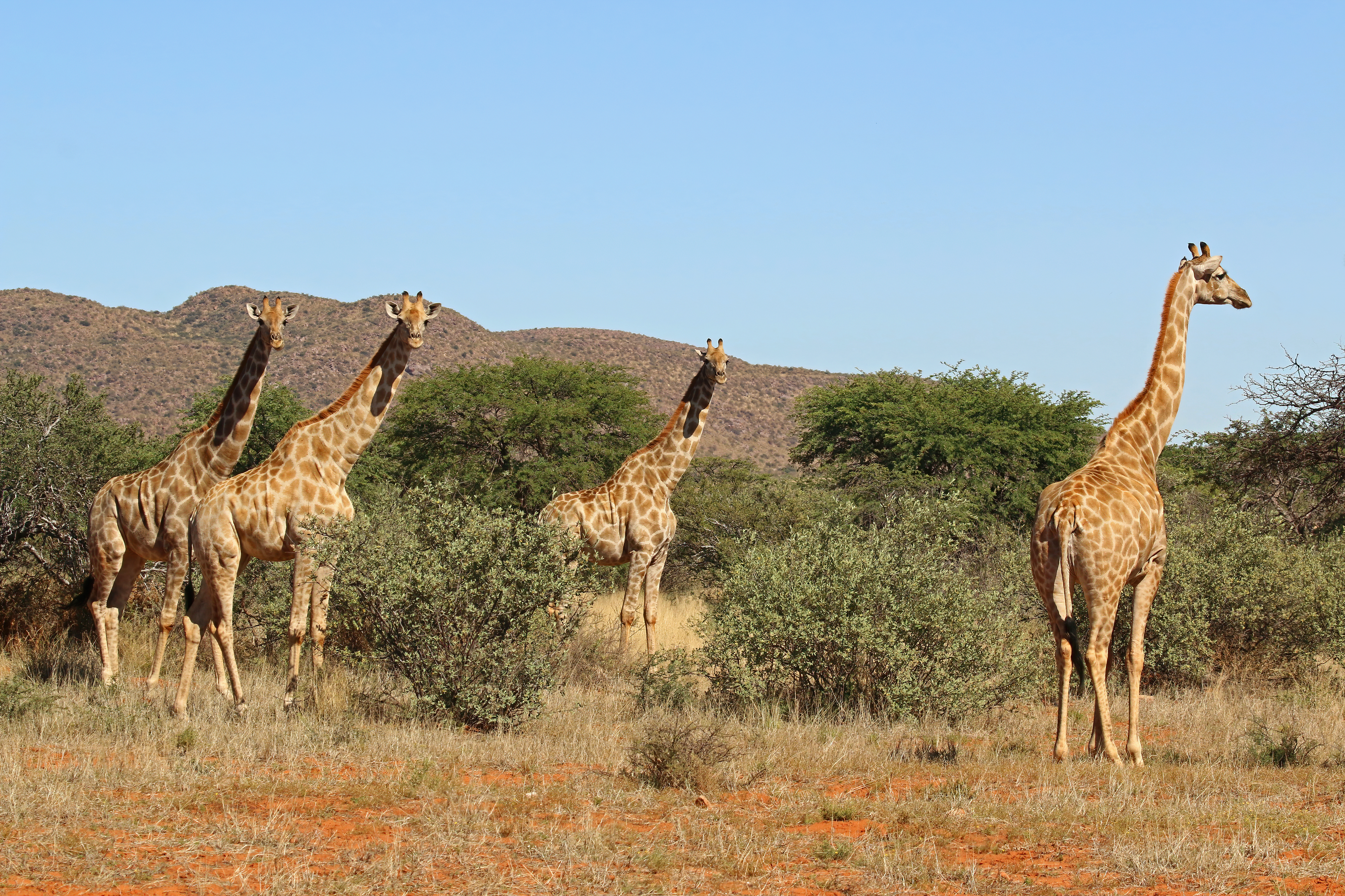 Giraffe (Giraffa camelopardalis) females, Tswalu Kalahari Reserve, South Africa